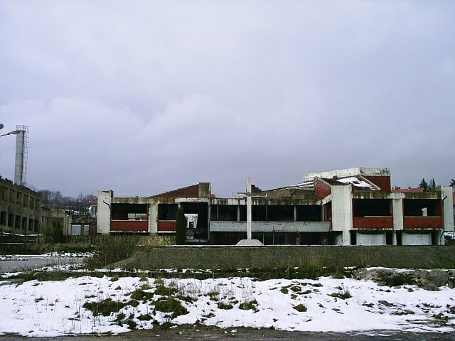 Town of Bosansko Grahovo in BiH